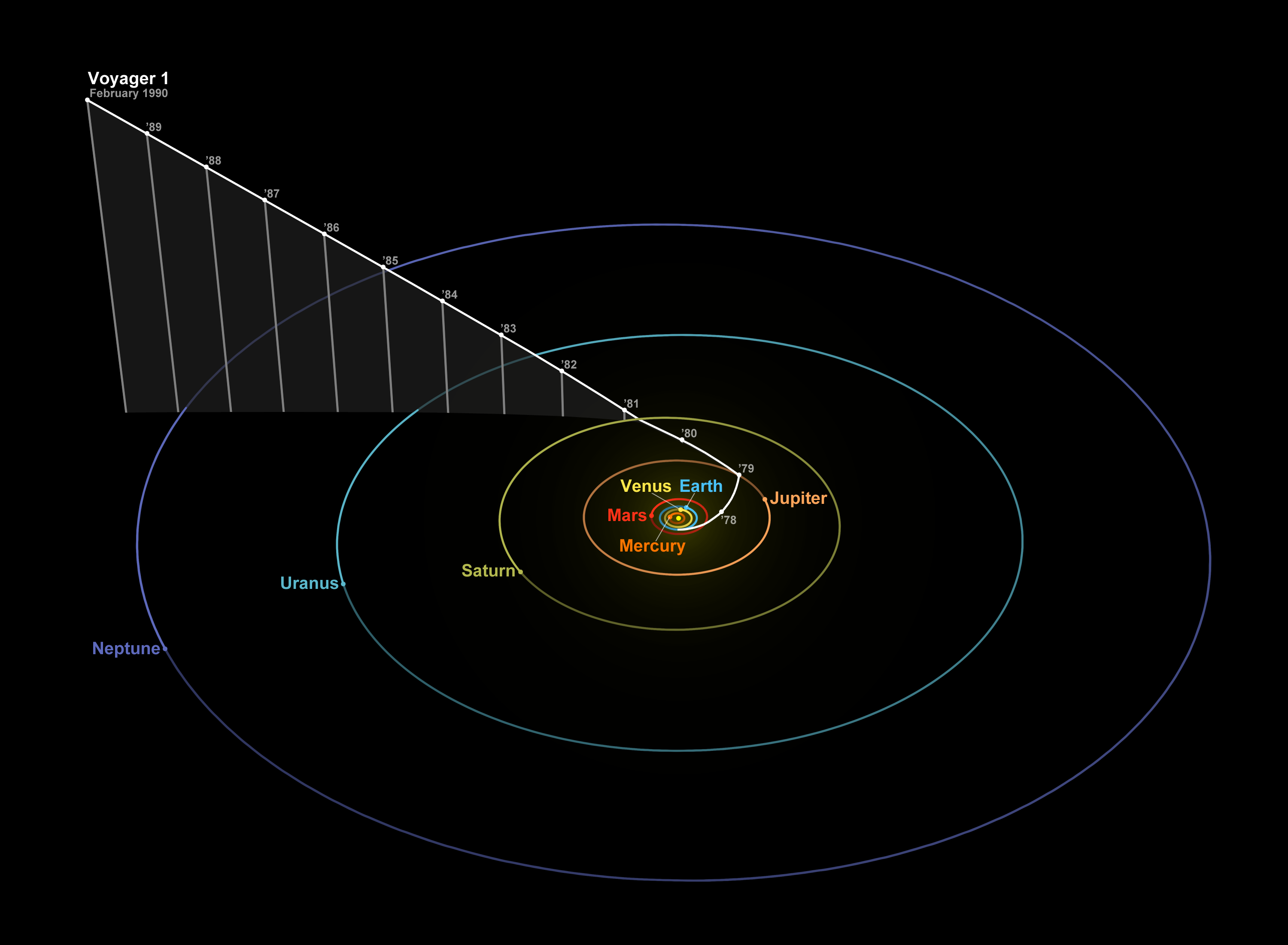 Position and trajectory of Voyager 1 and the positions of the planets on 14 February 1990, the day when Pale Blue Dot and Family Portrait were taken.